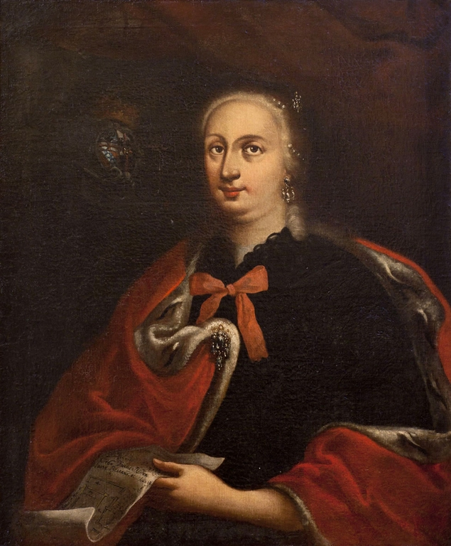 Portrait of Countess Ricciarda Gonzaga di Novellara (1698–1768), unknown painter